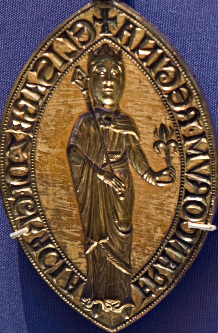 Medieval French seal now in the British Museum. Tag on exhibit reads: "Seal of Isabella of Hainault" and "About 1180. Paris, France. Silver. PE 1970,0904.1" See BM database entry for more details.